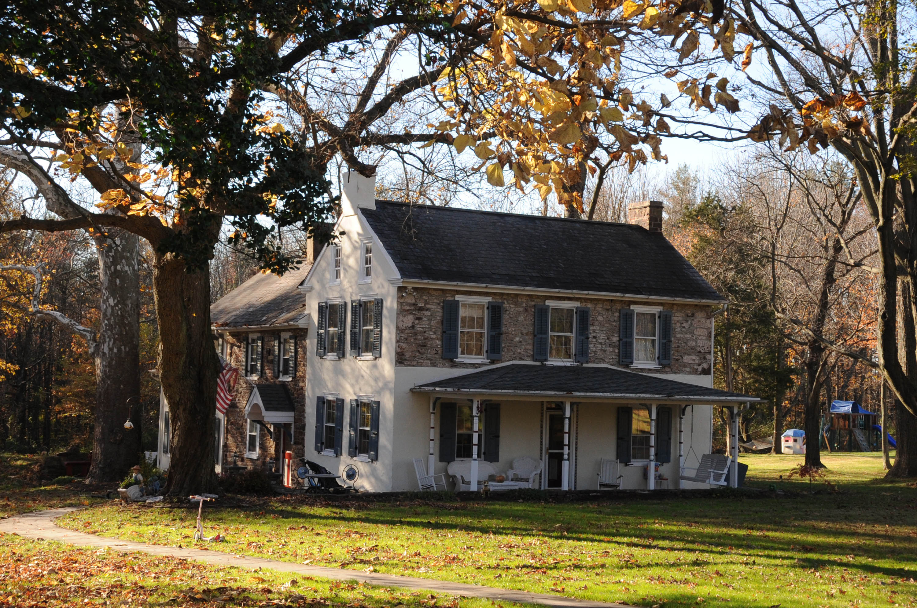 Per the Bucks County Courier Times, Levittown Pennsylvania, August 22, 1977, the earlier section of this home was built in 1762 by Garret Vansant and/or his brother (actually he had a son by this name) Cornelius. It is on the National Register of Historic Places. It is also known as Overlook Valley Farm.